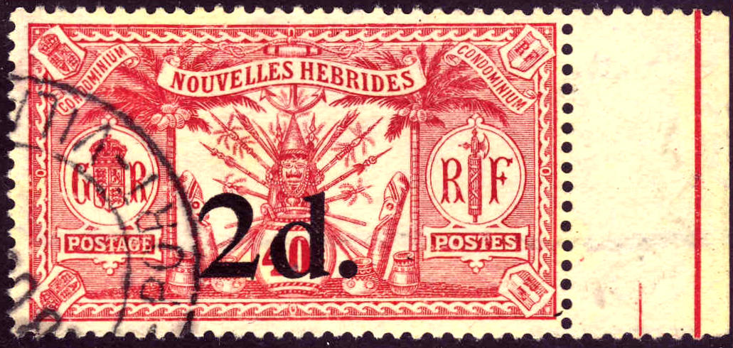 A 1920 stamp.